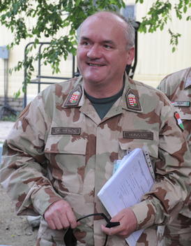 Csaba Hende